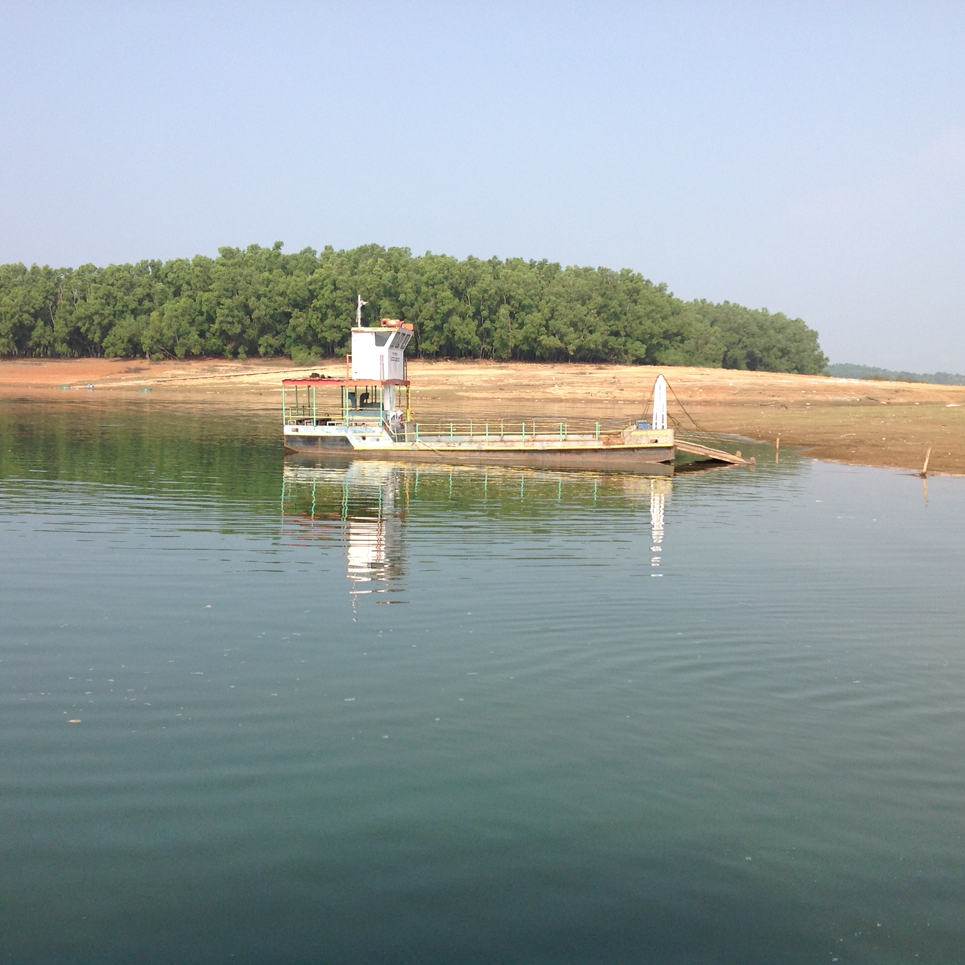 Hasirumakki - a place in Sagar Taluk, Shivamogga District. ಕನ್ನಡ: ಹಸಿರುಮಅಕ್ಕಿ- ಸಾಗರ ತಾಲೋಕಿನ ಶರಾವತಿ ಹಿನ್ನೀರಿನ ಪ್ರಧೇಶ